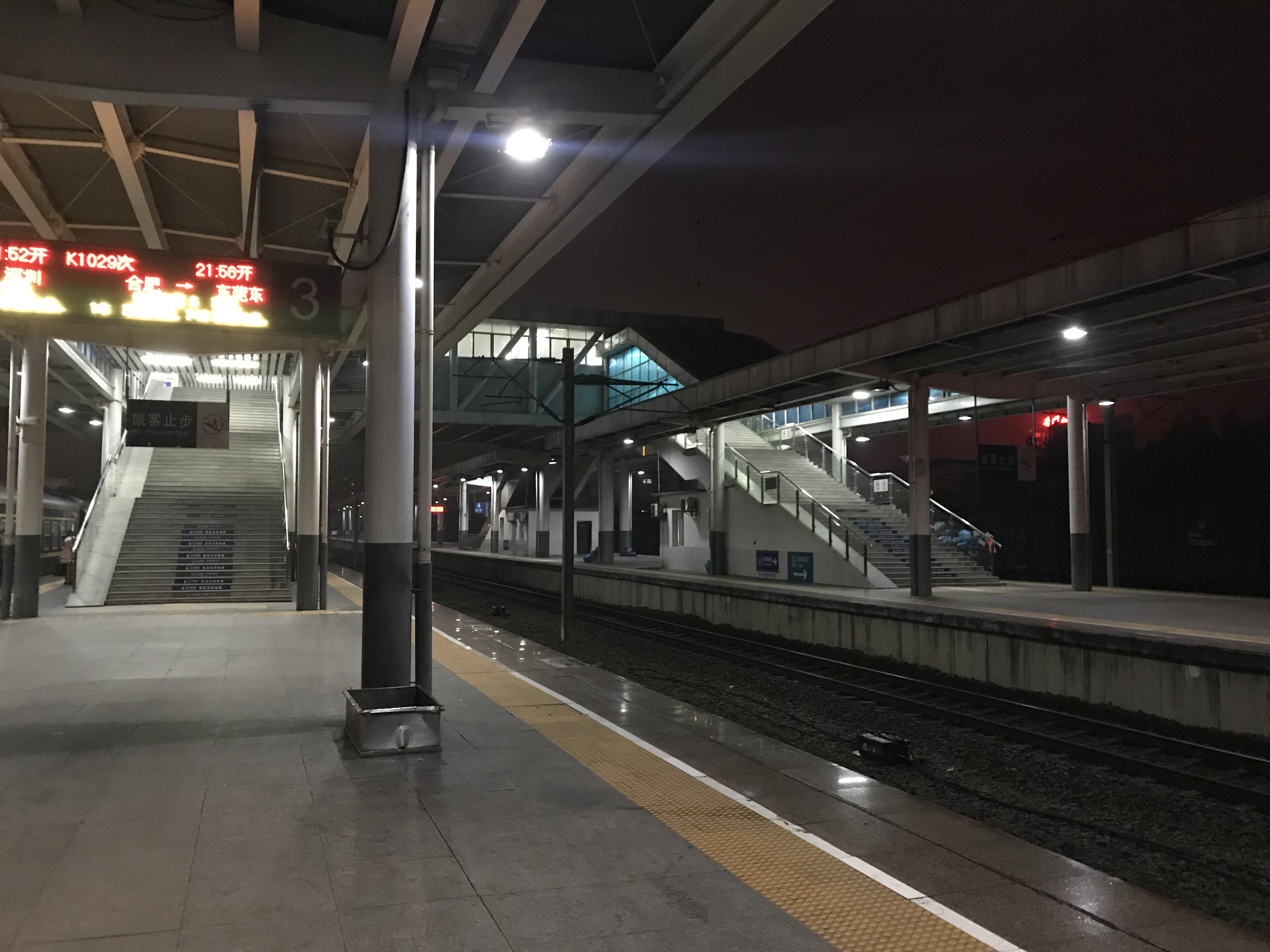 201901 Platform 3,4 of Ji'an Station (1)